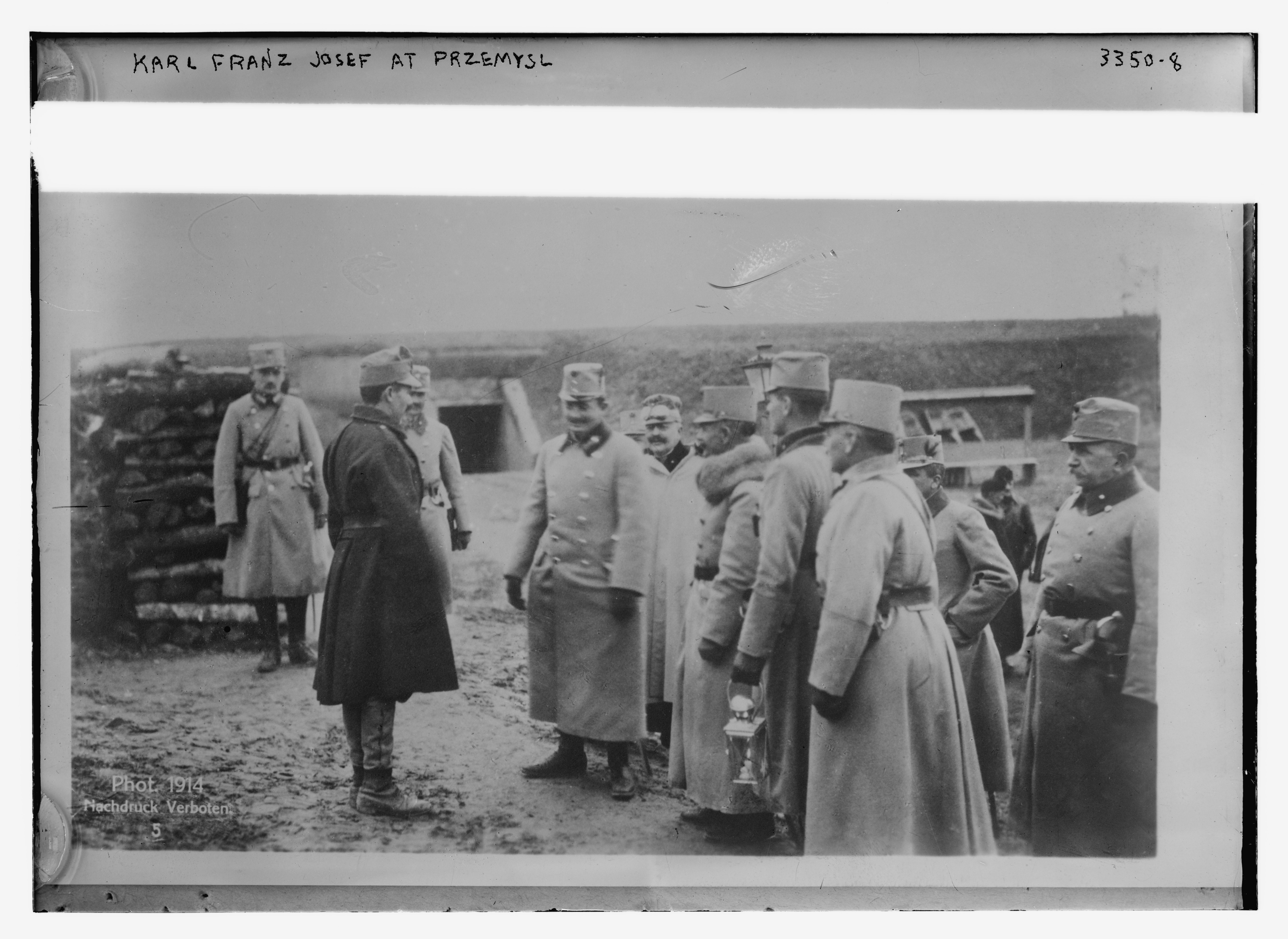 Title: Karl Franz Josef at Przemysl Abstract/medium: 1 negative : glass ; 5 x 7 in. or smaller.